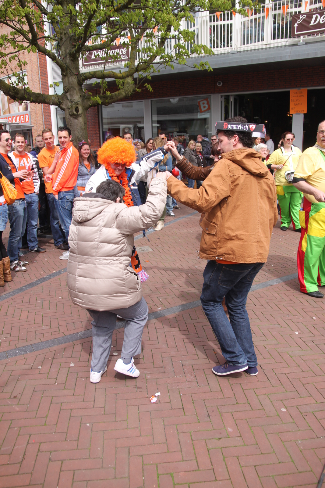 Dancing people during Queens'day in Spijkenisse